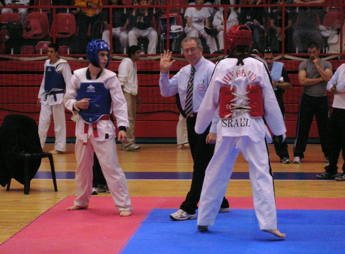 National Taekwondo Championship - Israel 2007